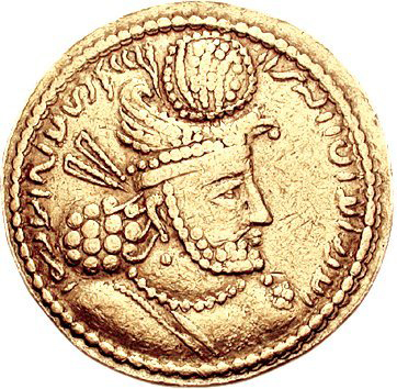 Coin of the Sasanian king Hormizd II.